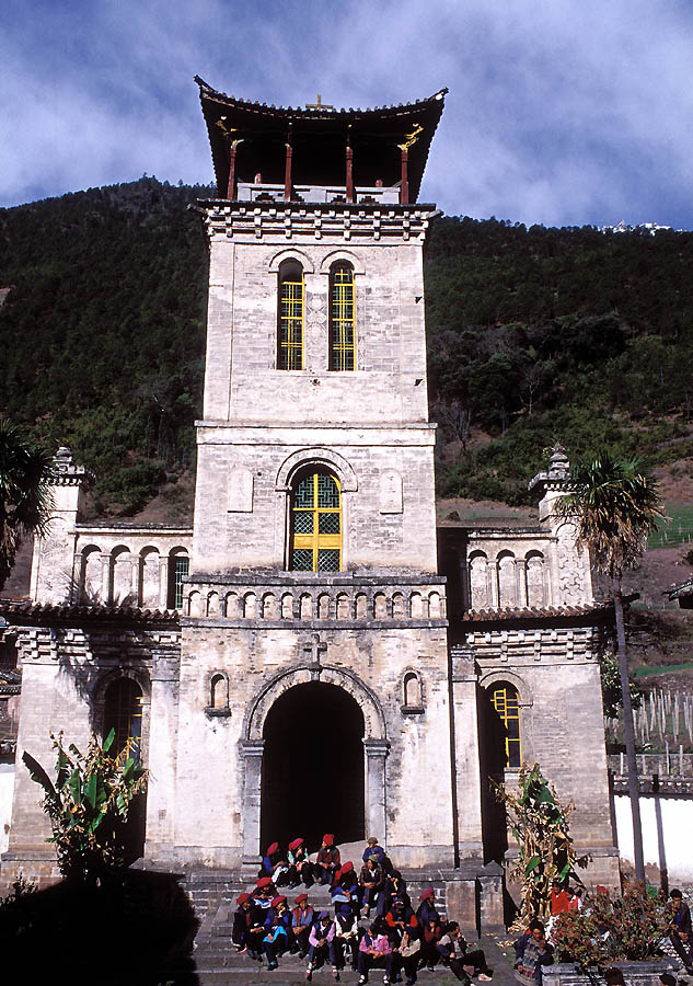 A Roman Catholic Church by the Lancang (Mekong) River at Cizhong (茨中), Yunnan Province, China. It was built by the French missionary at the end of 19th century, and subsequently incinarated, then rebuilt from 1907 to 1911. Since the region is very ethnically diverse, the church members include ethnic groups such as Han, Tibetans (Zang), Naxi, Lisu etc. (Here's more details)